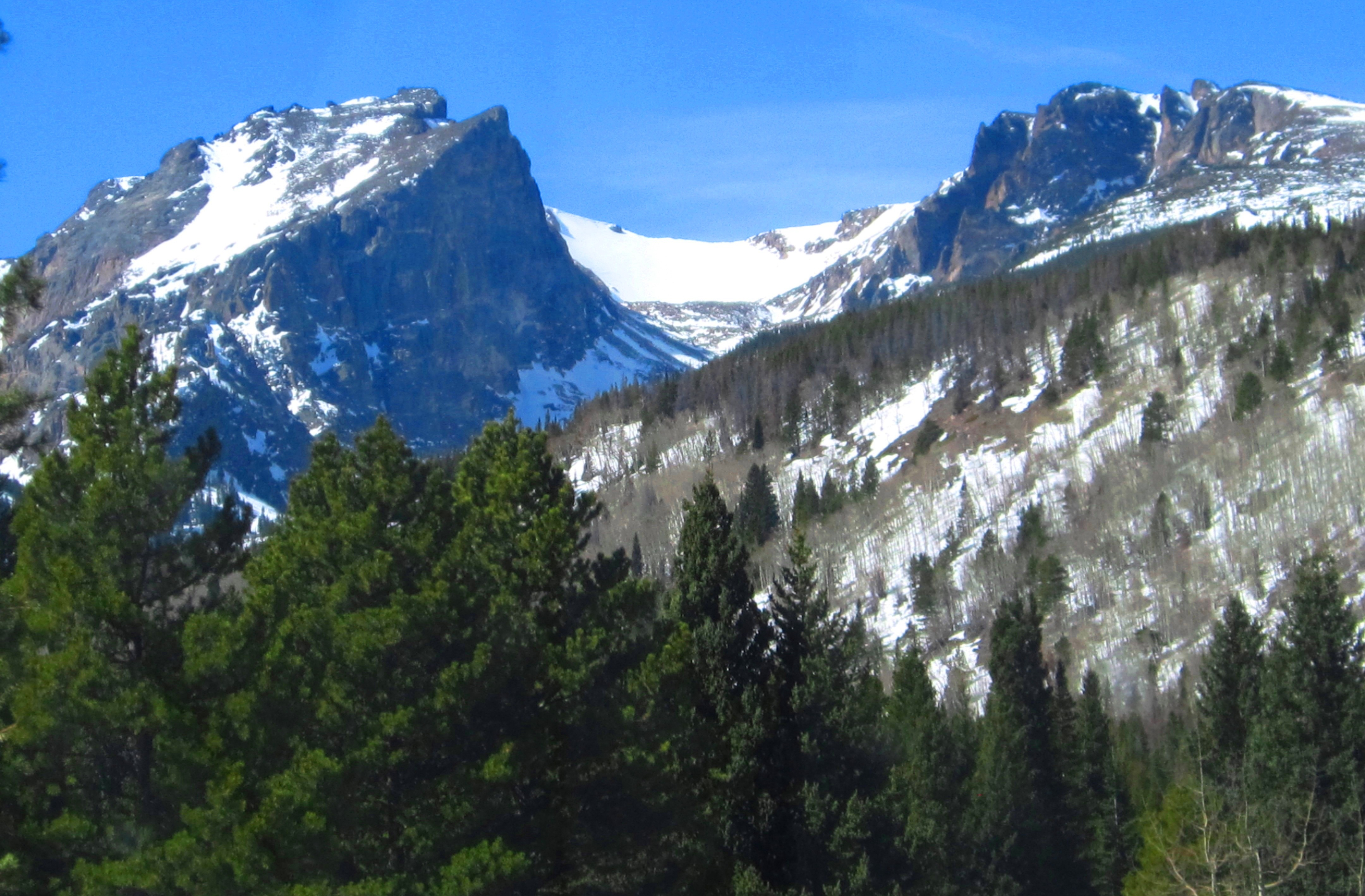 Rocky Mountain National Park